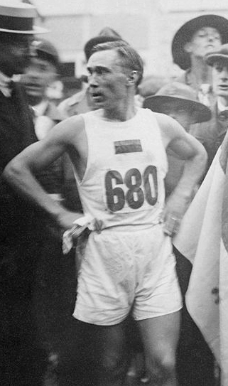 Medallists in the marathon, Juri Lossmann of Estonia (680), silver, at the Olympic Games in Antwerp.